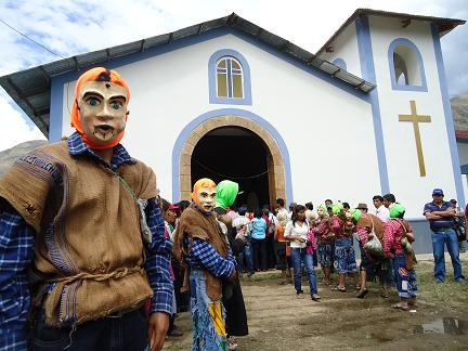 festividad